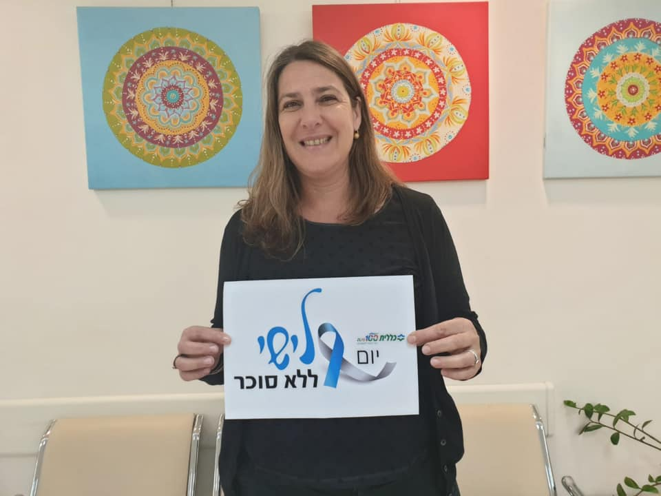 מחוז צפון של כללית נלחמים בסכרת